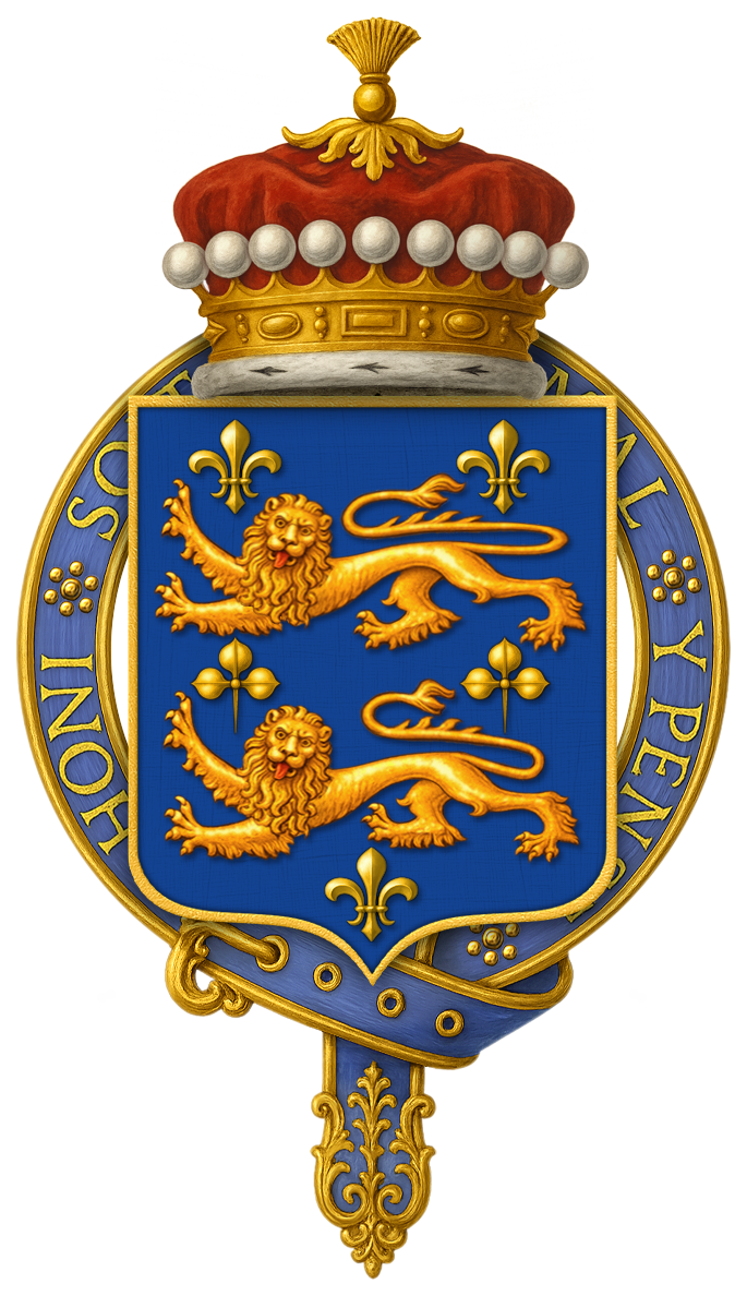 Garter-encircled coat of arms of Bernard Montgomery, 1st Viscount Montgomery of Alamein, KG, as displayed on his Order of the Garter stall plate in St. George's Chapel, Windsor Castle, viz. Azure two lions passant guardant between three fleur-de-lis two in chief and one in base and two trefoils in fess all or.